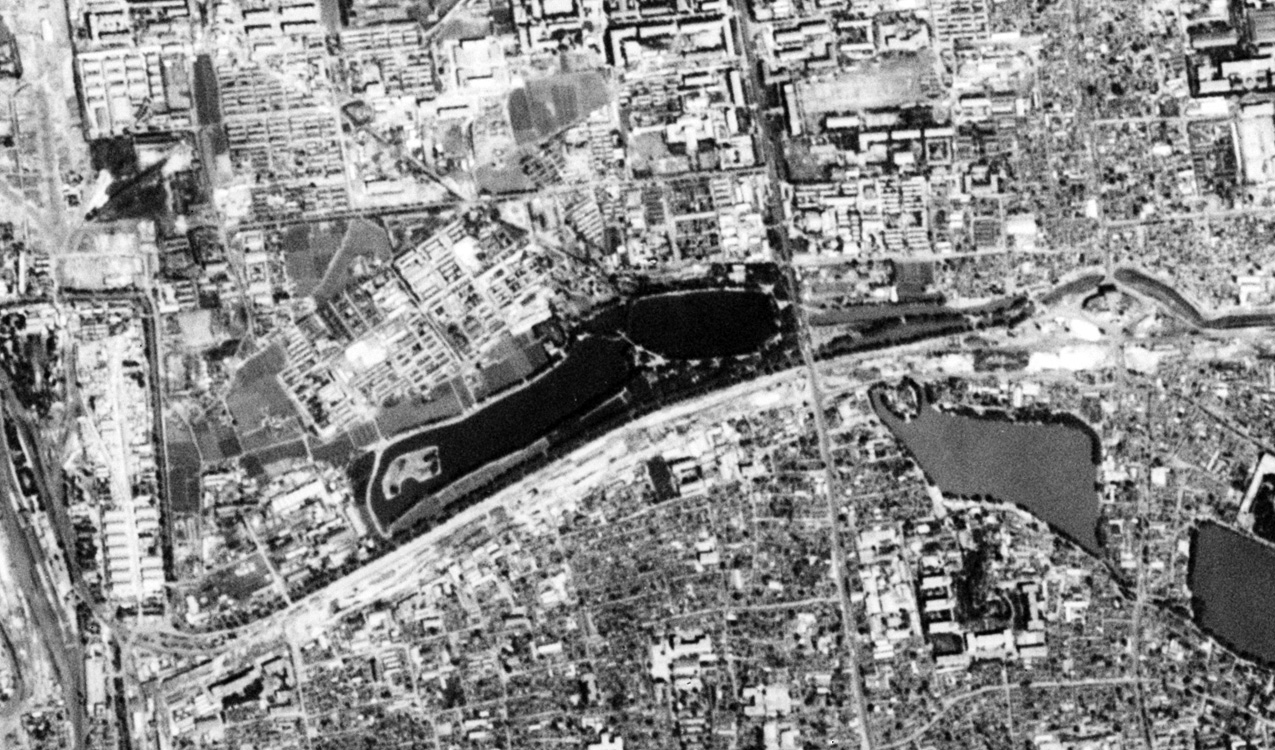 Taiping Lake, Xinjiekou Subdistrict, Beijing. It was buried to become a parking lot for subway trains. 中文（中国大陆）: 曾经的北京新街口太平湖。后来填平，成为太平湖车辆段。